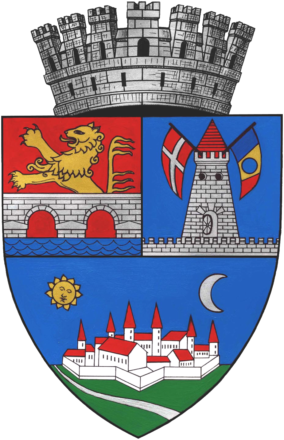 Coat of Arms of Timisoara adopted by decision of the Local Council on 30.06.2009.